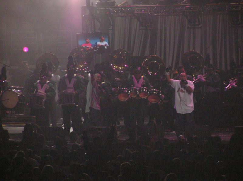 Akwid performs at the Arrowhead Pond in Anaheim, California.